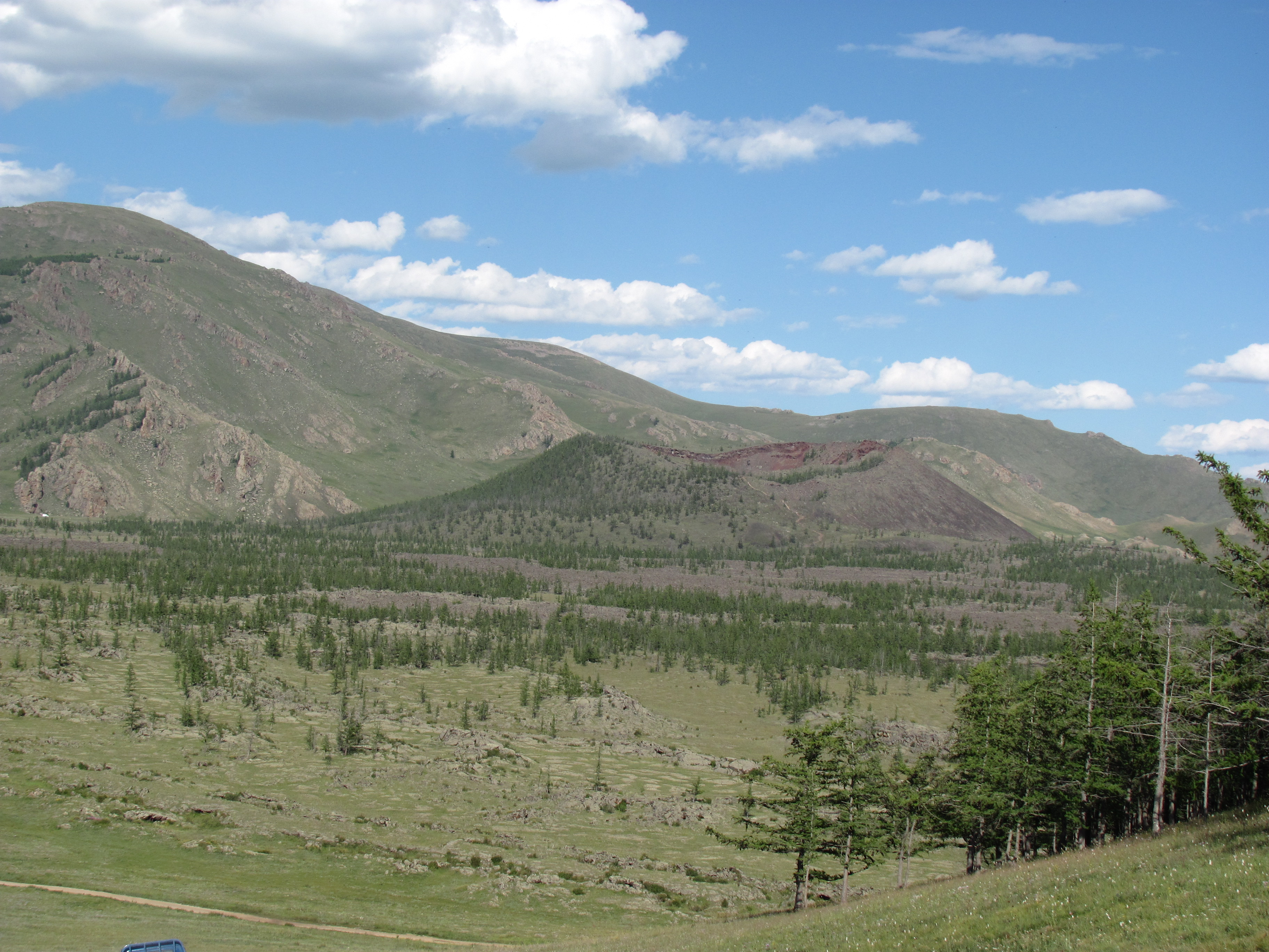 Khorgo volcano, Arkhangai Aimag, Mongolia.